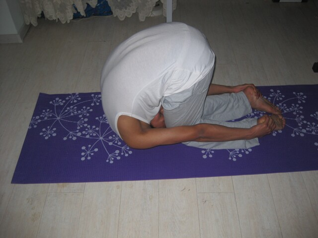 shashankasana